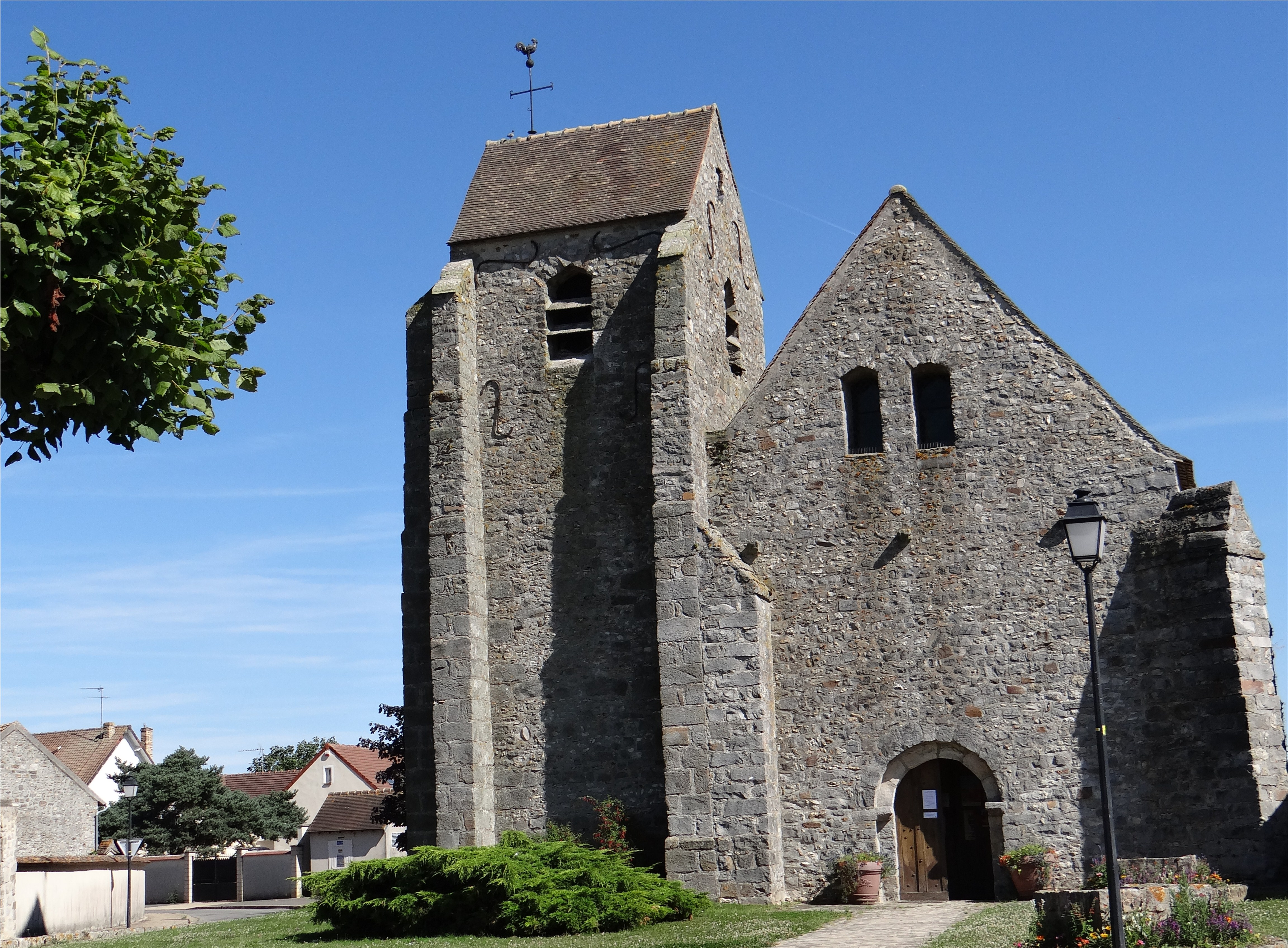 Church of St. John the Baptist, Mauchamps, Essonne, France